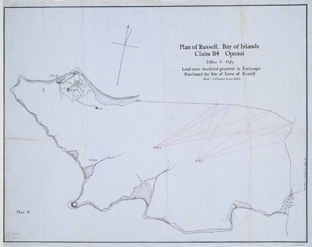 Plan of Russell (i.e. Old Russell or Okiato); drawn in 1935 from the original by an unknown artist